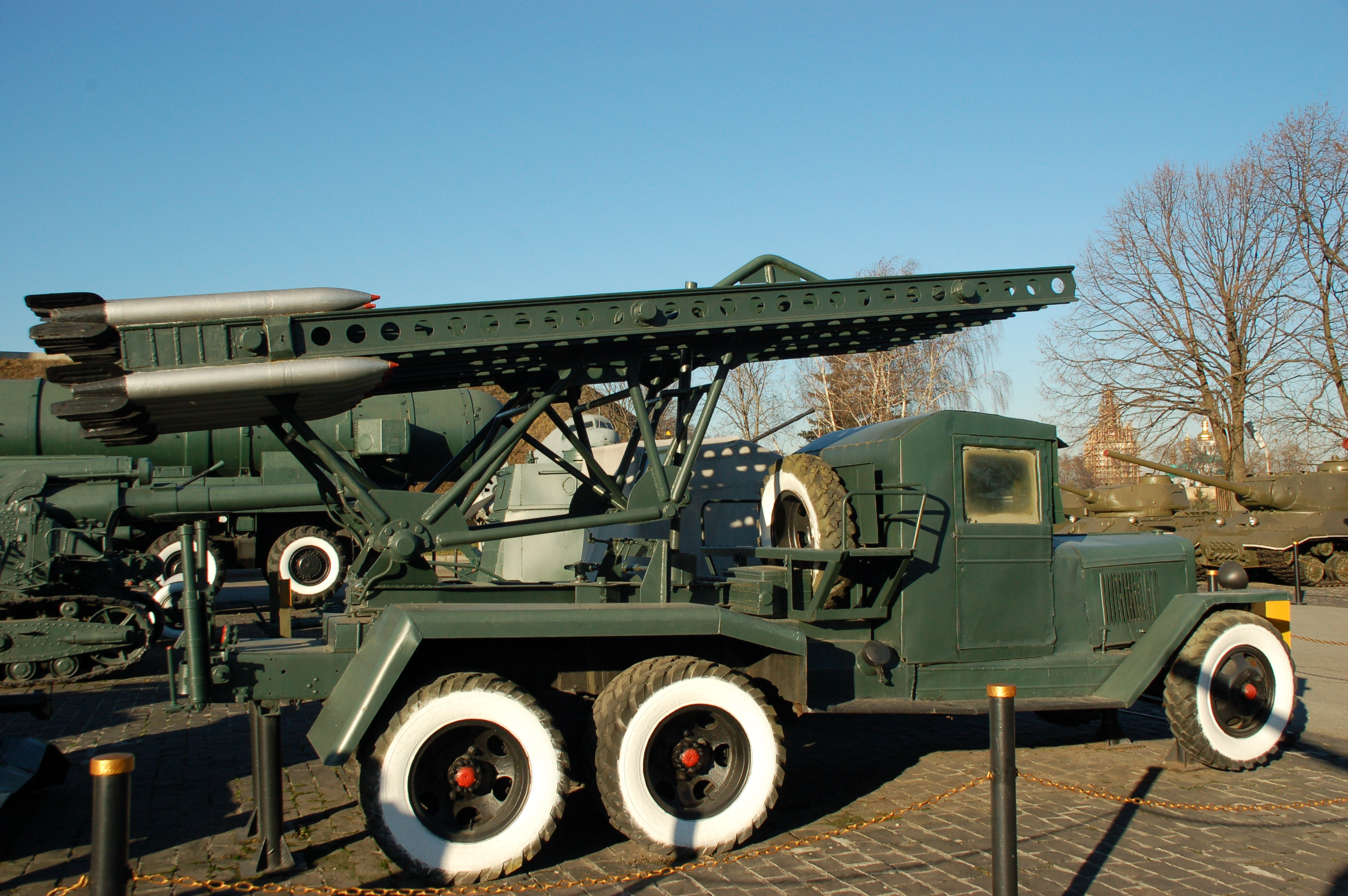 The National Museum of the History of the Great Patriotic War (Second World War) A Katyusha missile launcher at the exhibition of soviet weaponry at the National Museum of the History of the Great Patriotic War (Second World War)